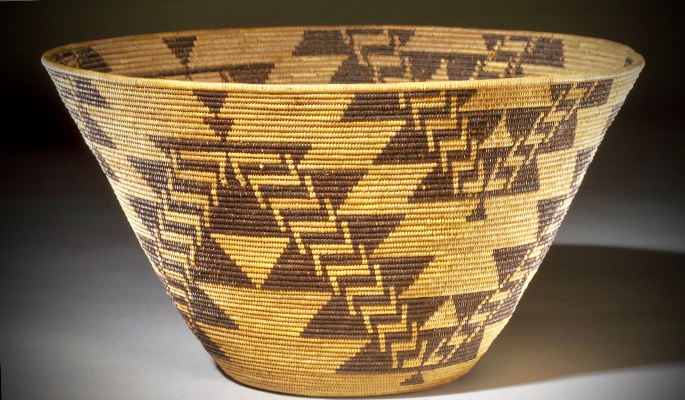 Mary Kea'a'ala Azbill (Maidu, Native American, 1864-1932). Coiled Presentation Bowl, late 19th-early 20th century. Sedge root, briar root, willow shoots, height: 8 in. (20.3 cm). Brooklyn Museum, Museum Expedition 1906, Museum Collection Fund, 06.331.8050. Creative Commons-BY (Photo: Brooklyn Museum, 06.331.8050_SL1.jpg) Coiled Presentation Bowl Arts of the Americas These Native American objects represent just a few of the items made in the late nineteenth and the early twentieth century, primarily for sale to dealers and collectors to satisfy the growing market for indigenous products. Finely coiled baskets like the example by the Maidu weaver Mary Kea’a’ala Azbill were in great demand ...